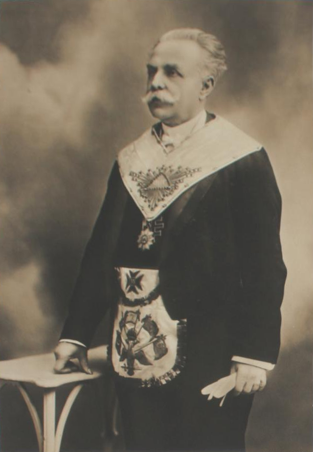 Photograph of Sebastião de Magalhães Lima (1850-1928), Portuguese politician, in Masonic garb.